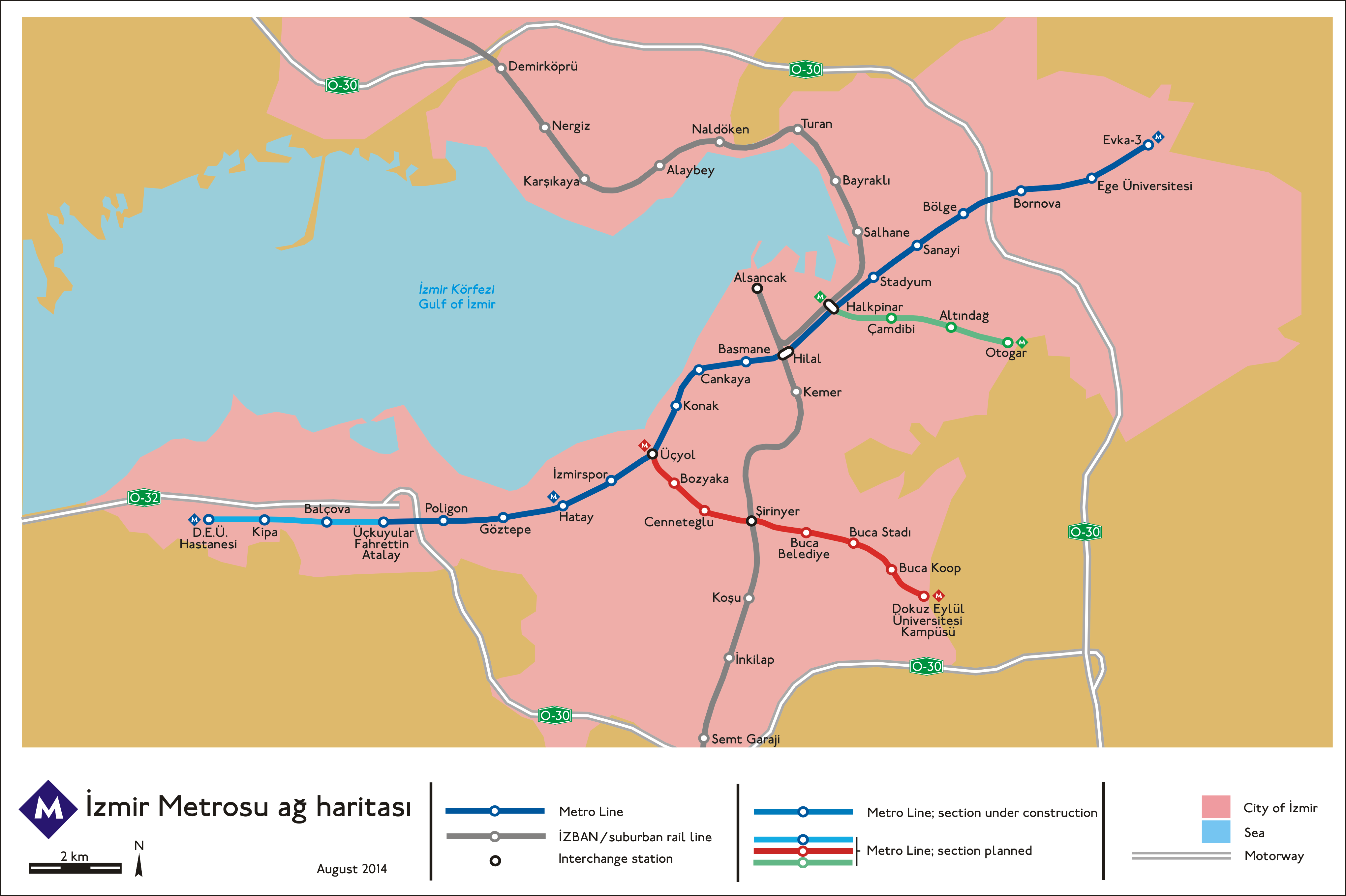 Metro Extensions Izmir